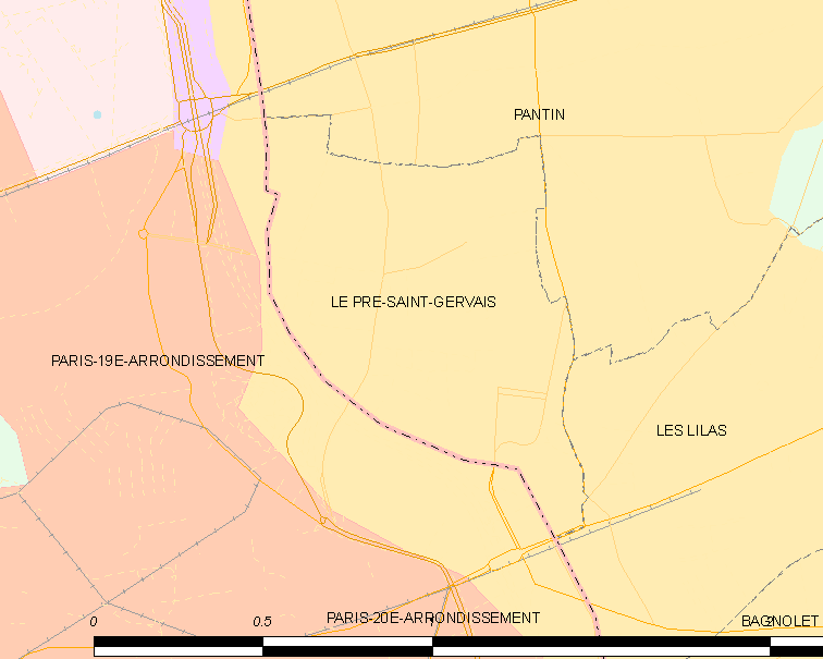 Map of French municipality Le Pré-Saint-Gervais